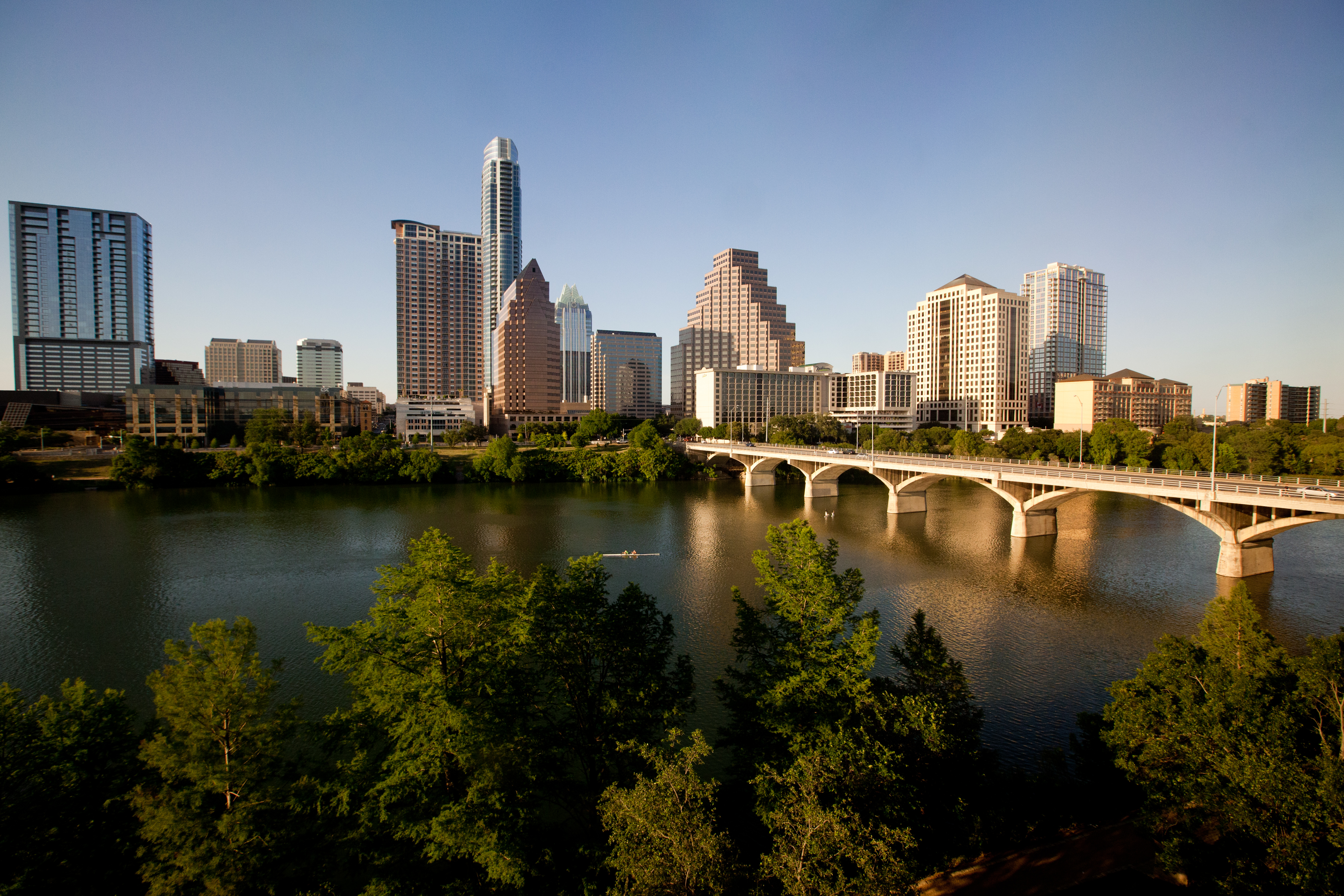 Austin at Sunset